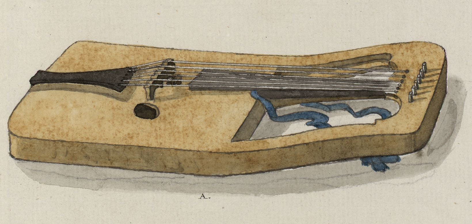 An image from a set of 8 extra-illustrated volumes of A tour in Wales by Thomas Pennant (1726-1798) that chronicle the three journeys he made through Wales between 1773 and 1776. These volumes are unique because they were compiled for Pennant's own library at Downing. This edition was produced in 1781. The volumes include a number of original drawings by Moses Griffiths, Ingleby and other well known artists of the period. Thomas Pennant (1726-1798)